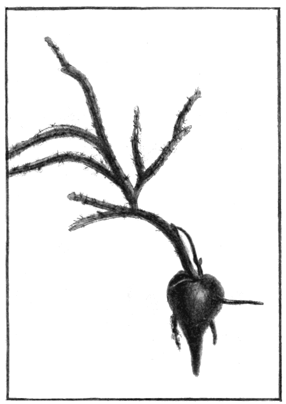 Night blooming cereus cereus greggii